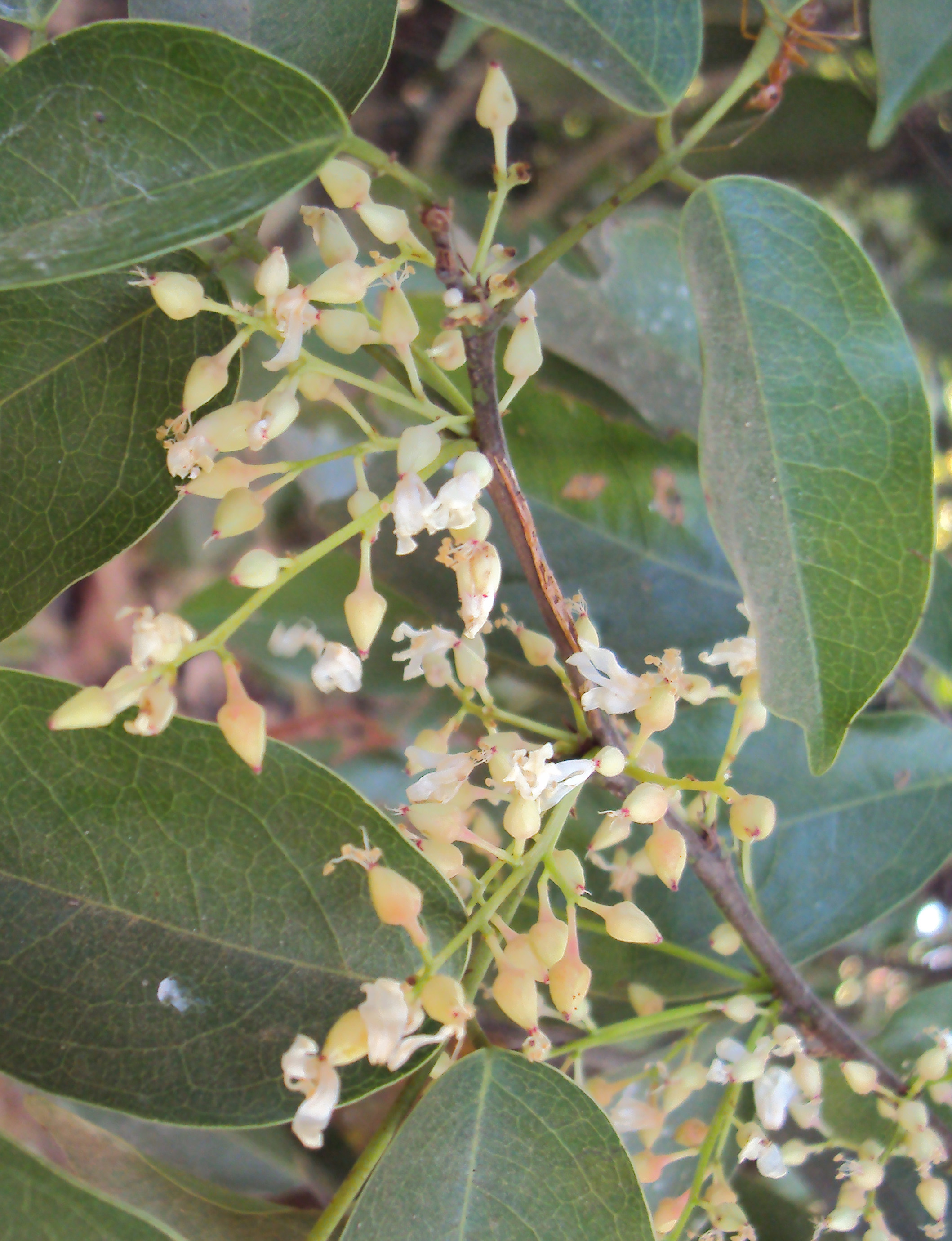 Connarus wightii